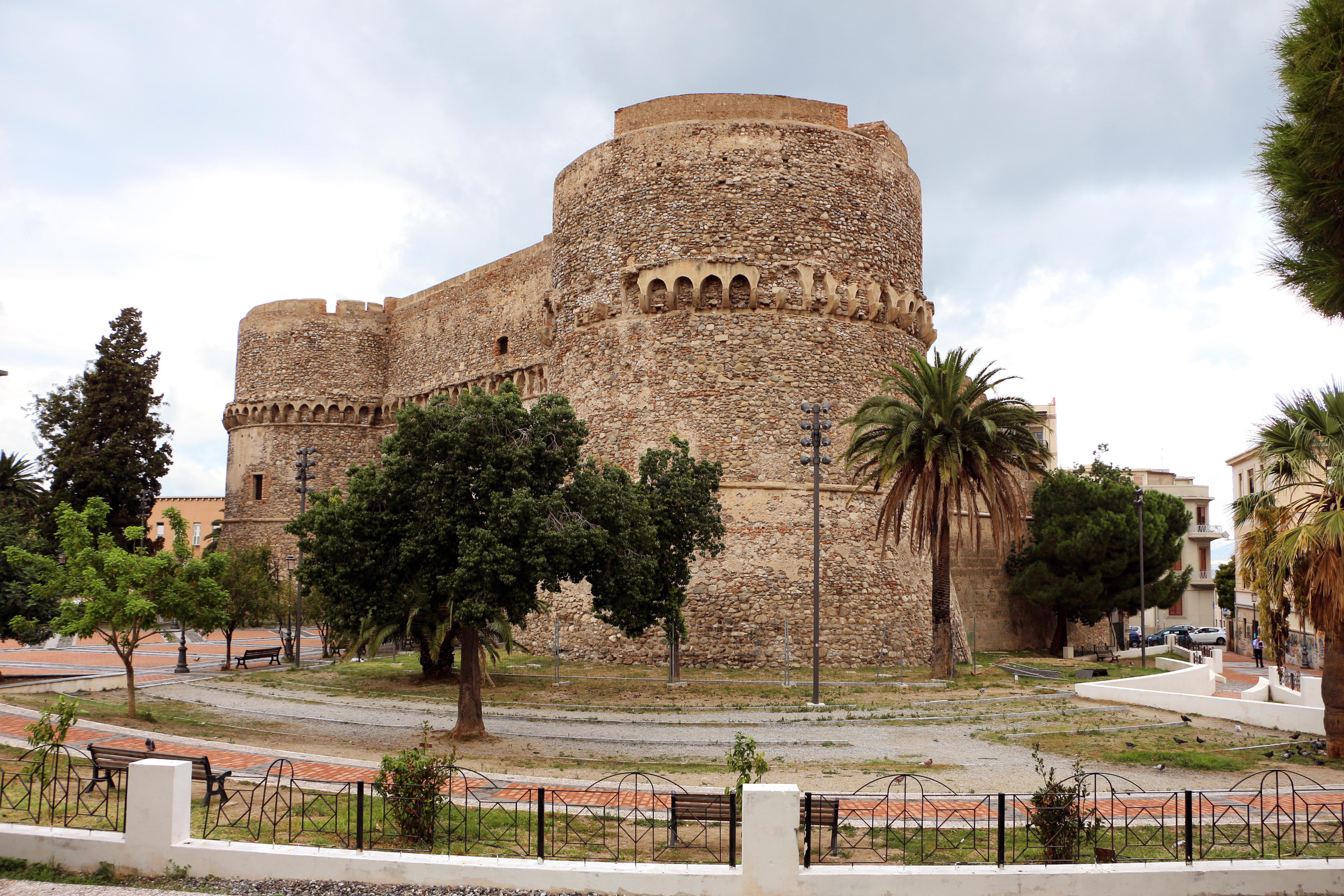 Castello Aragonese (Reggio Calabria)